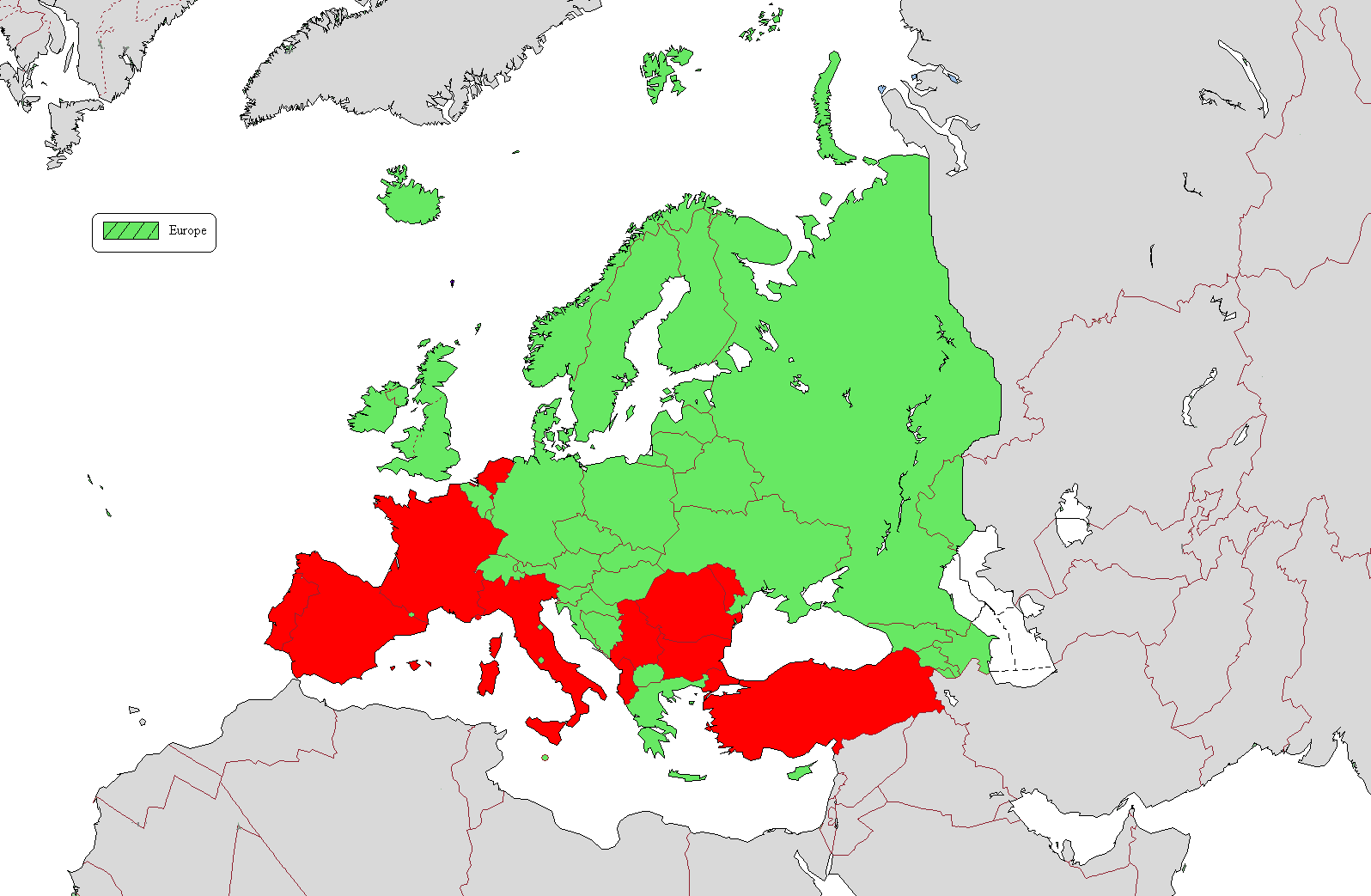 Gendarmerie-type police forces in Europe Description: Countries in Europe having a gendarmerie-type police force (red) Source: own work, 17.04.2006, based on Image:Europe_political_map.png Date: 17.04.2006 Author: User:Mentatus